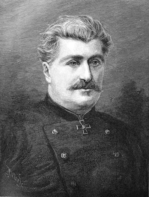 Sketch of Nikolay Przhevalsky in Popular Science Monthly, Volume 30, January, 1887 (spelled Nicholas Prejevalski in the source in 1887)